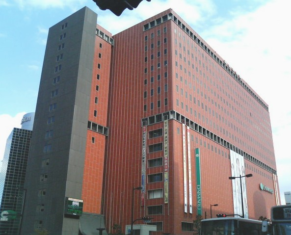 Photograph of the headquarters of Nishinippon Shimbun in Fukuoka, Fukuoka Prefecture, Japan, taken on 19 March 2006 by original uploader. 西日本渡辺ビル。西日本新聞社本社および博多大丸。2006年3月19日にオリジナルの投稿者(Muyo master)自身が撮影。